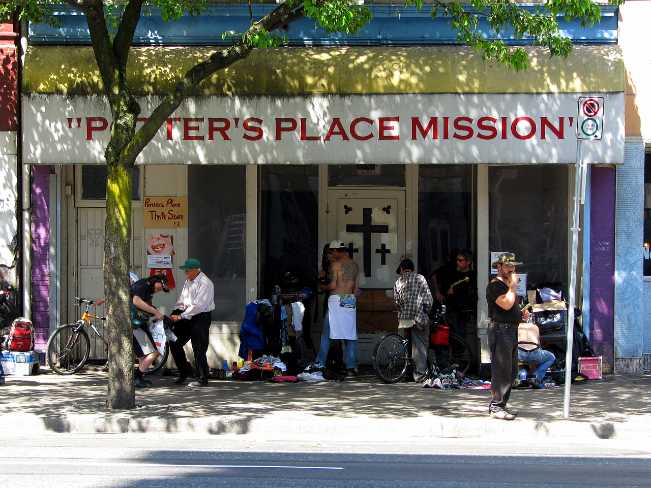 Potters Place Mission, on Hastings near Main; in Vancouver BC Canada.